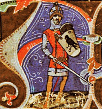 Álmos of Hungary